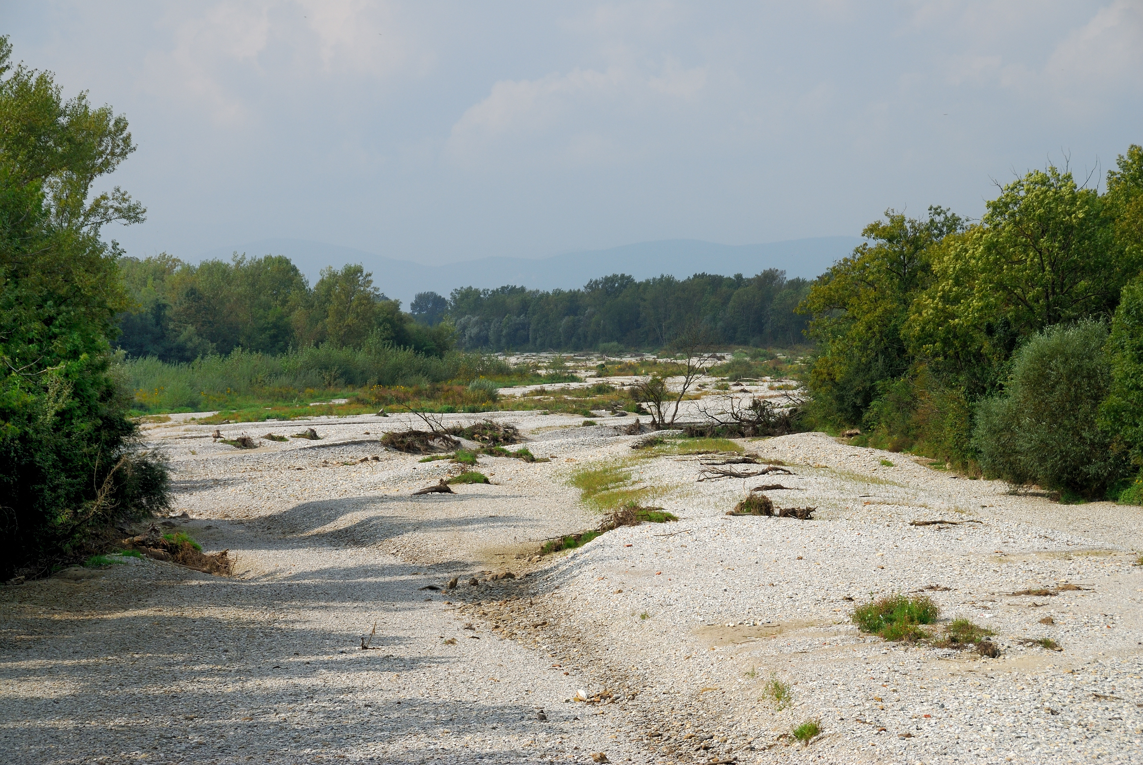 Dried-up stream Schwarza approx. 500m before junction with stream Pitten (near Bad Erlach, Lower Austria)